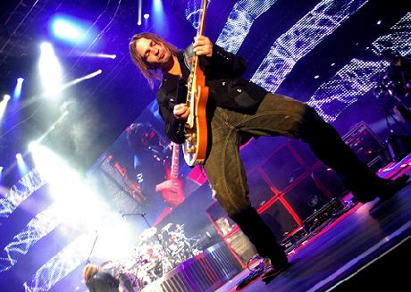 well peace of work